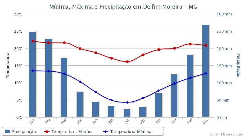 DELFIM MOREIA CLIMATE